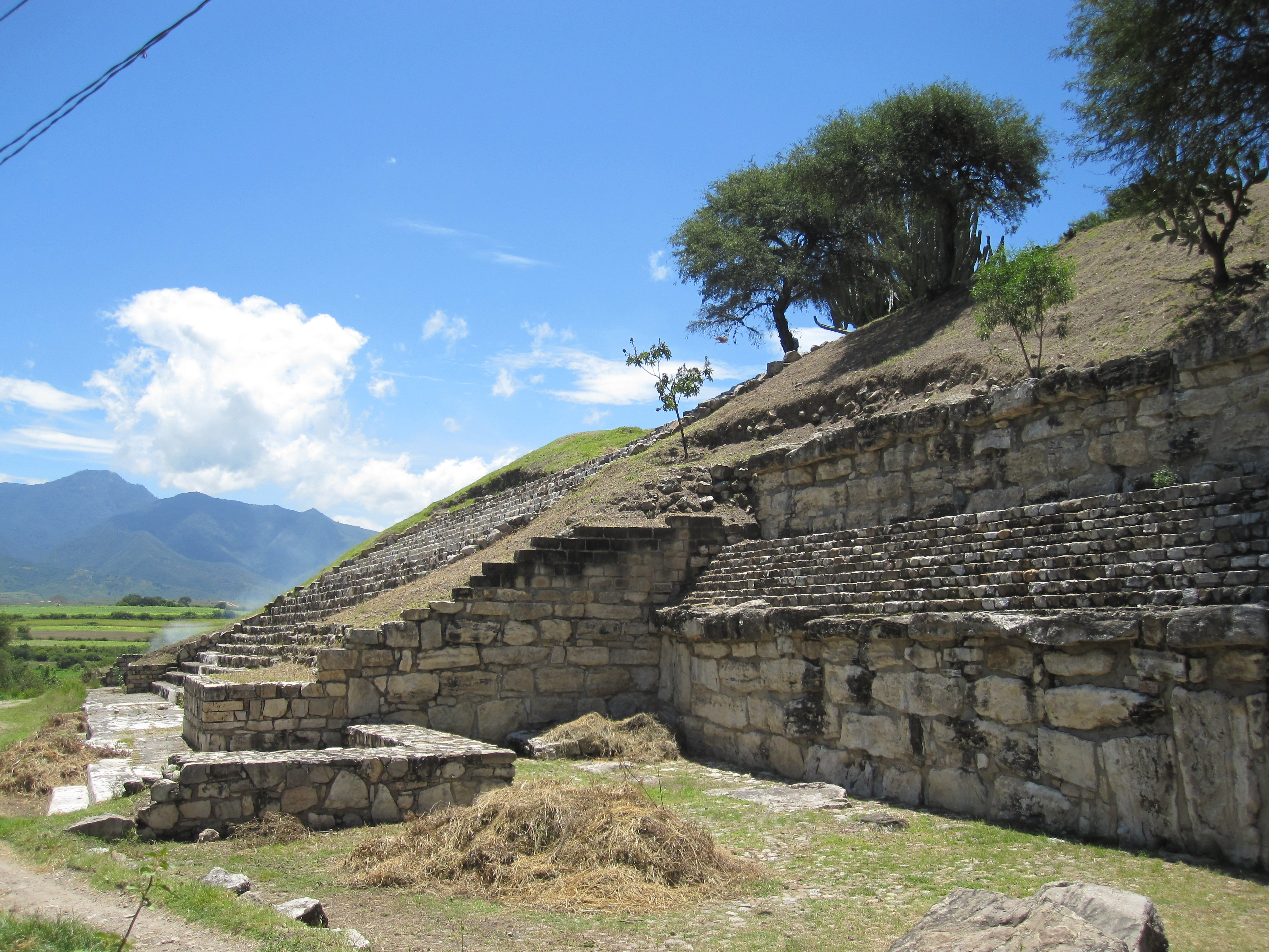 The main stairs at the precolumbian pyramid of San Jose Mogote, Oaxaca, Mexico.